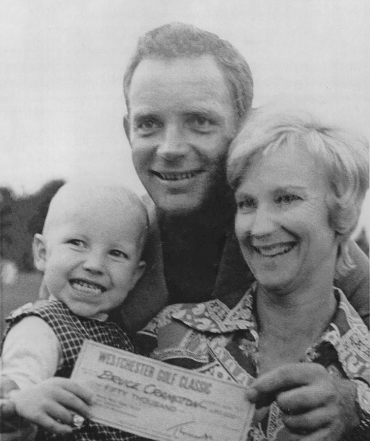 1970 Press Photo Bruce Crampton with his family after winning tournament